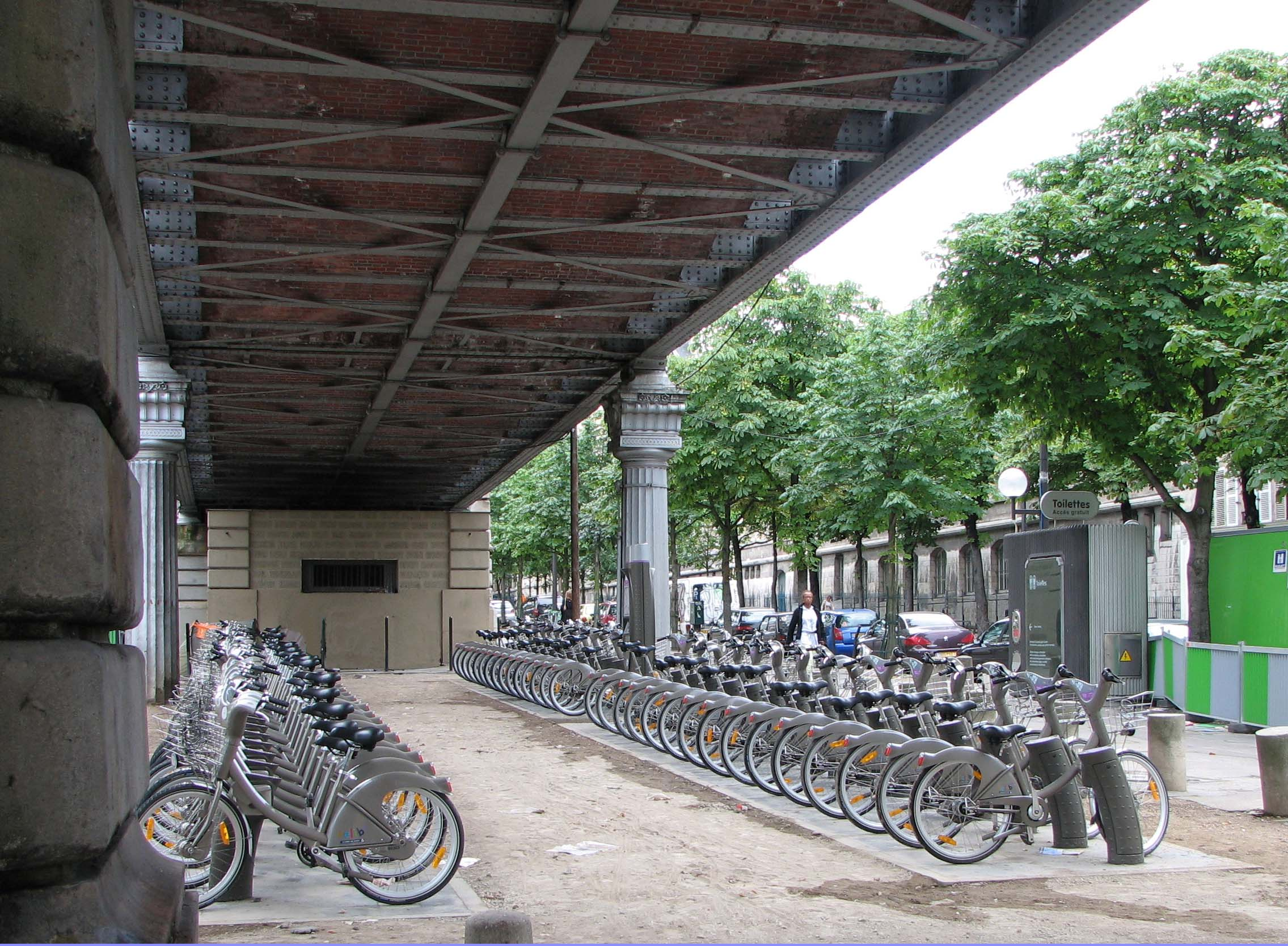 Vélib' (a public velocity) in Paris near Sévres-Lecourbe metro station, under line 6 viaducts